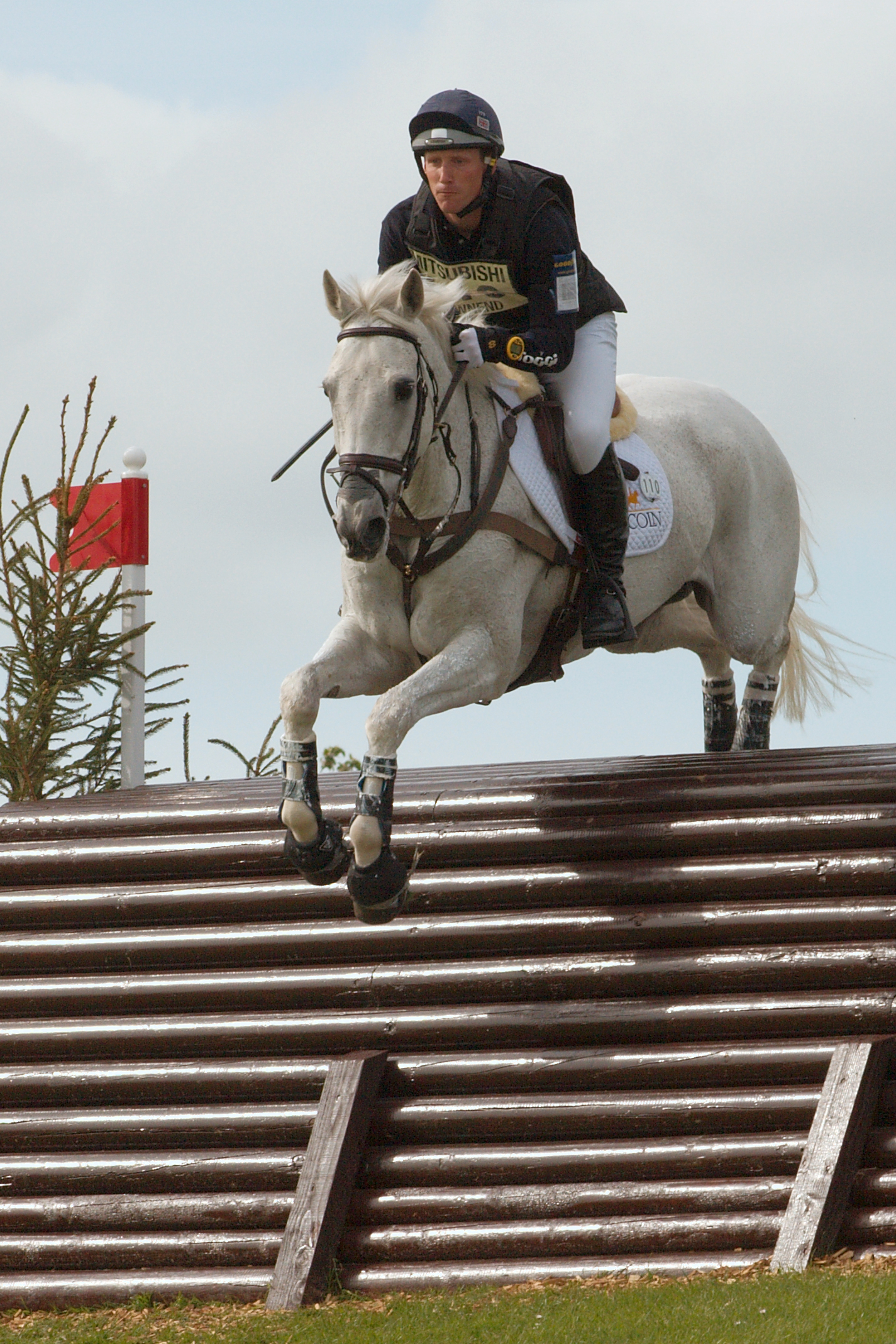 Oliver Townend and Flint Curtis, the winning combination at Badminton Horse Trials 2009, at the Hillside during the cross-country phase.